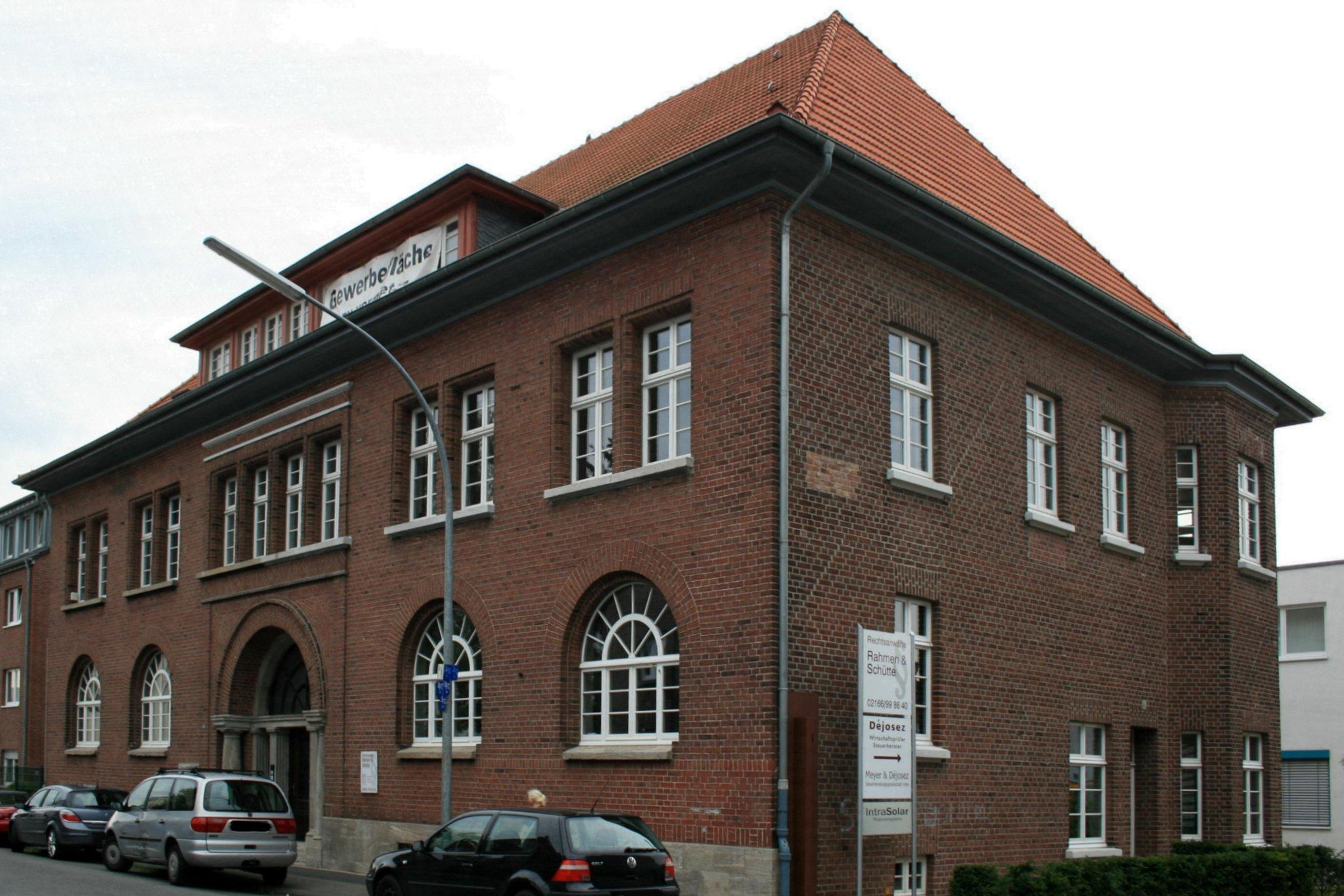 Cultural heritage monument No. B 165 in Mönchengladbach